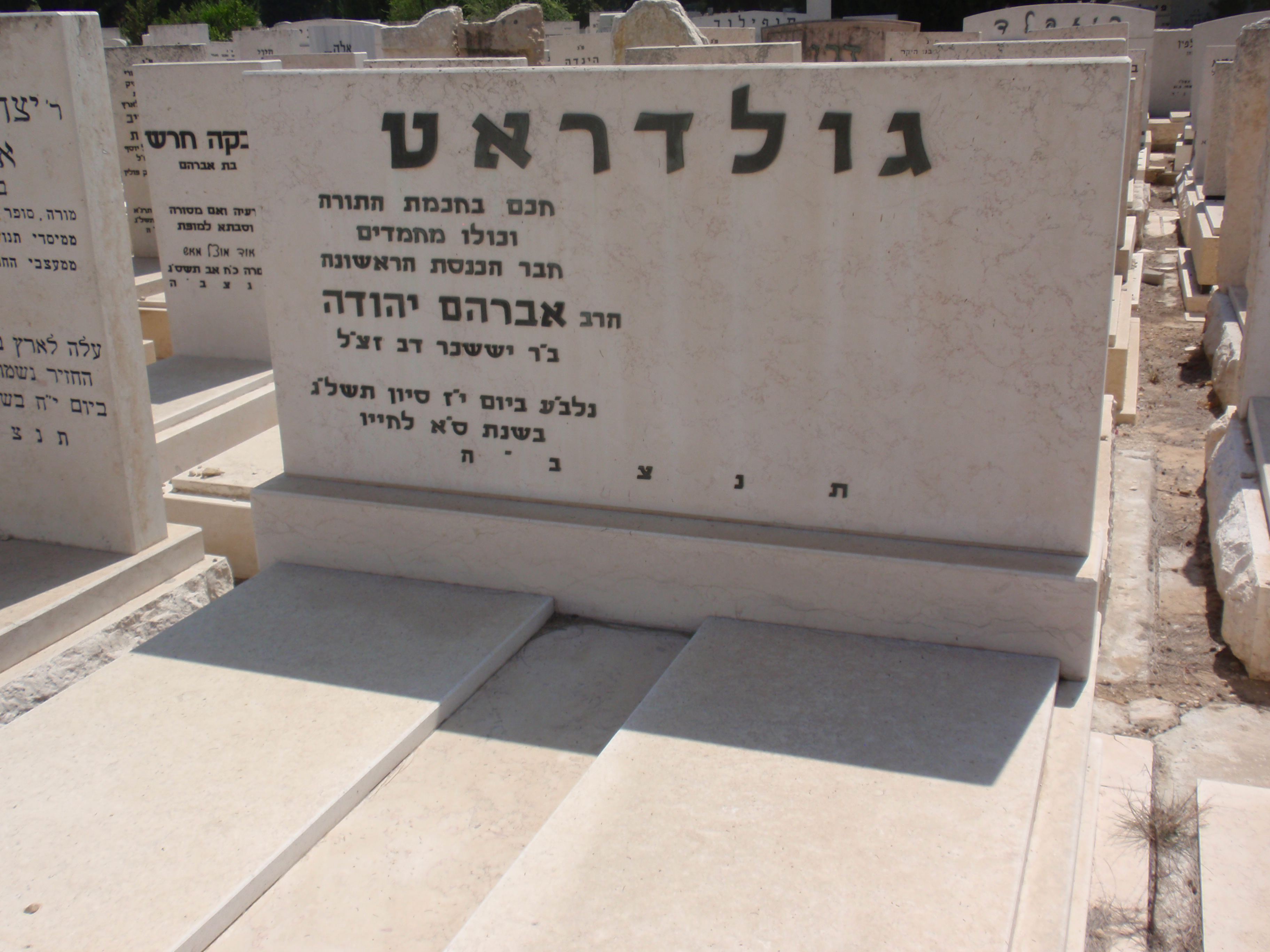 Tombstone of Avraham-Yehuda Goldrat at Kiryat Shaul cemetery, Tel Aviv, Israel